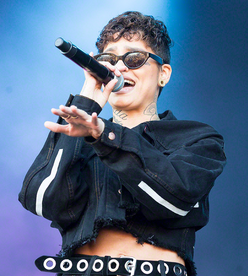 Kehlani at the minor stage during Stavernfestivalen in Stavern on 09. July 2016.Lineup: Kehlani Parrish (vocal)